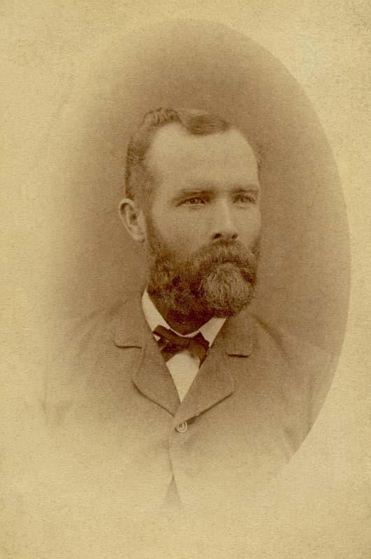 Helaman Pratt (1846–1909)